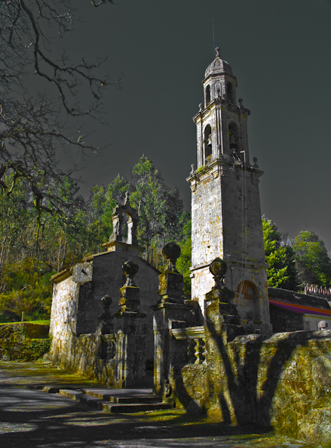 Church in Outes, A Coruña.